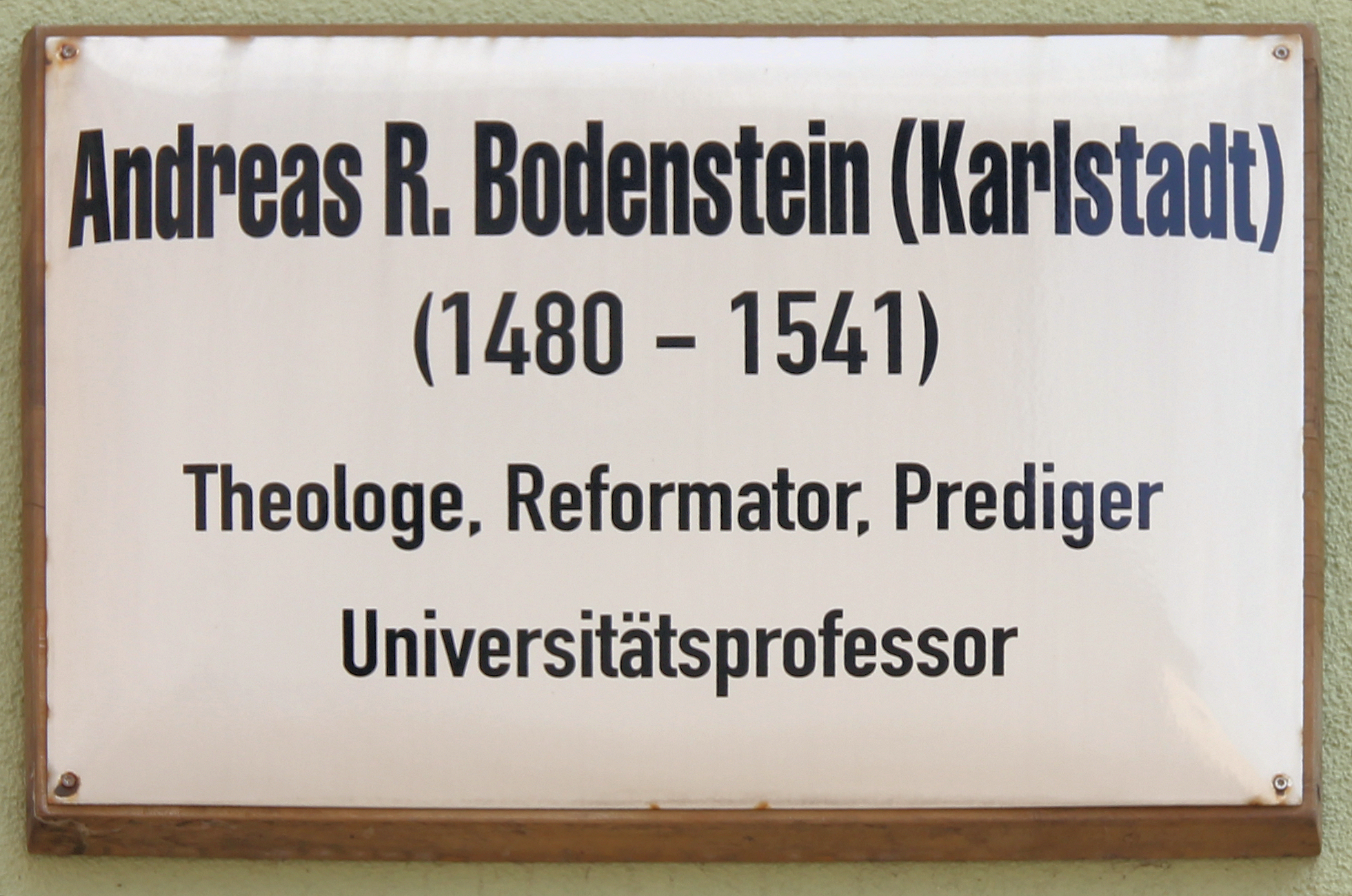 Memorial plaque, Andreas Bodenstein, Kirchplatz 11, Lutherstadt Wittenberg, Germany Koordinate:51°51′59″N 12°38′44″E / 51.86639°N 12.64556°E